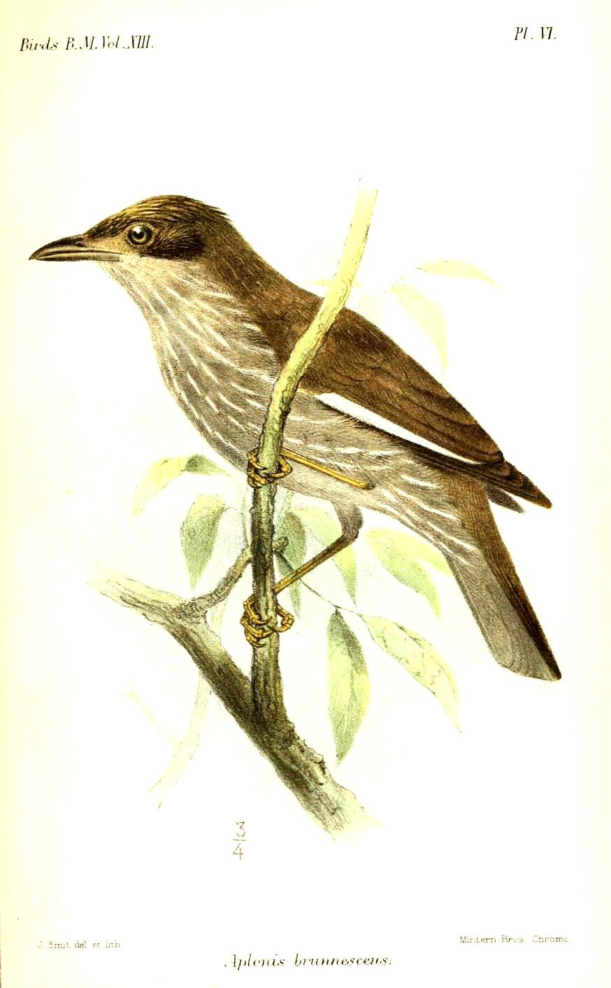 Aplonis brunnescens = Aplonis tabuensis brunnescens, Polynesian Starling